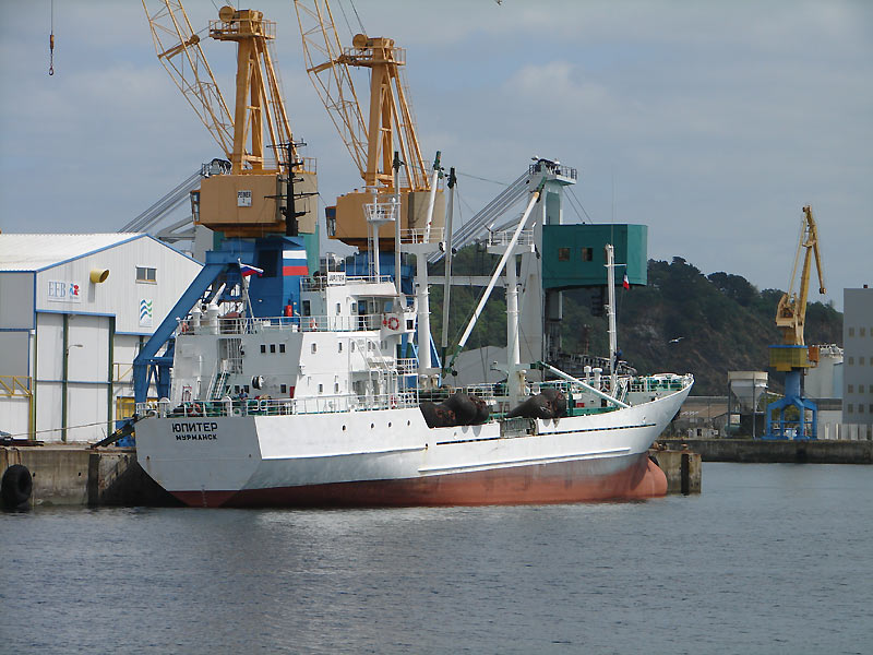 Reefer ship alongside in Brest.